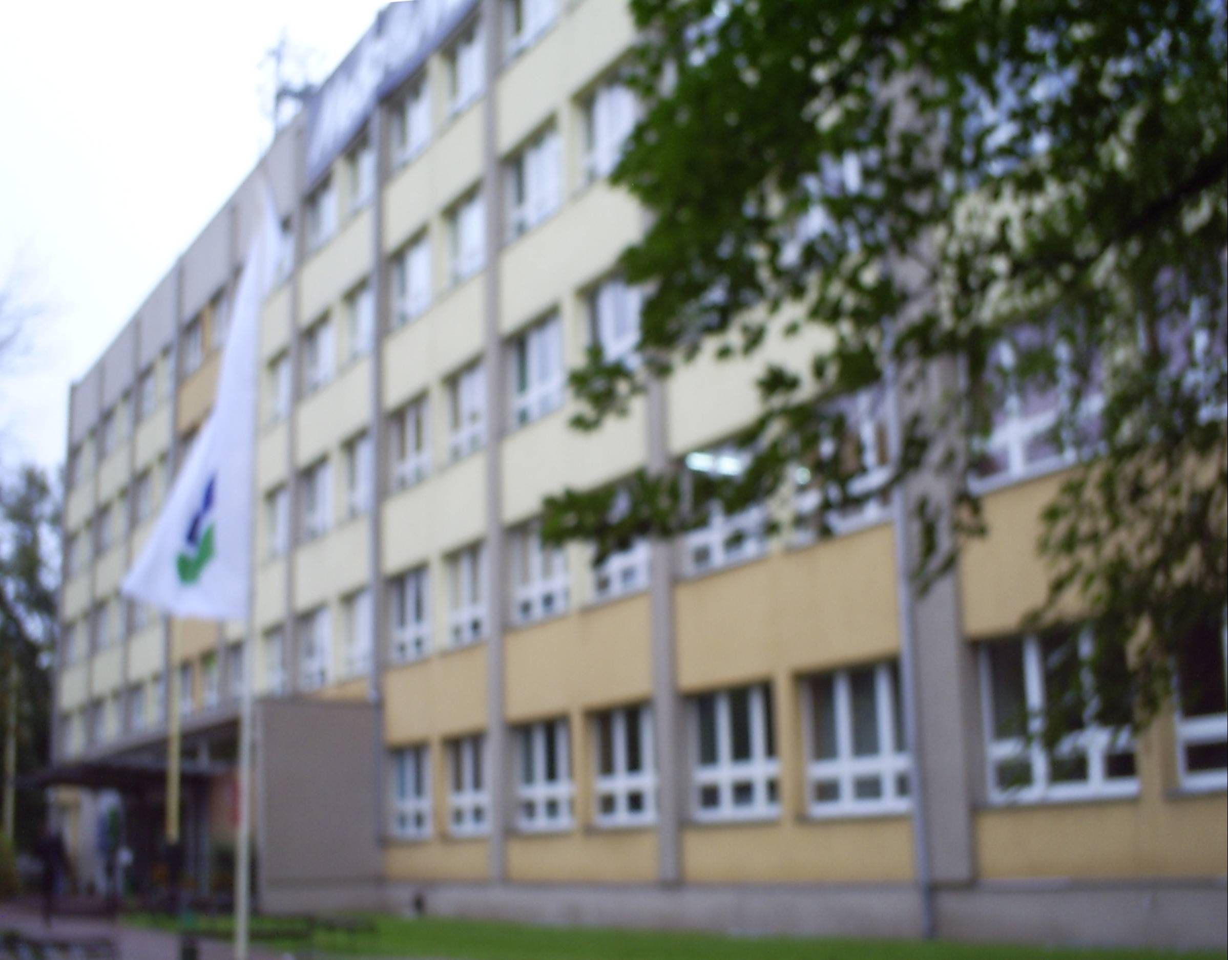 West Pomeranian University of Technology, Szczecin; Faculty of Chemical Engineering (New Chemistry)